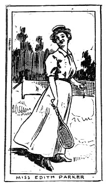 Newspaper illustration of Edith Parker, found at the head of the article "Tennis Champions," published in the McCook Tribune, July 13, 1900, page 3.